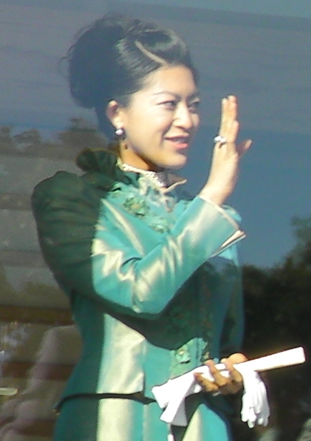 Japanese Princess Tsuguko of Takamado. On January 2nd in 2009, by the imperial palace new year congratulatory palace visit, myself take a photograph.